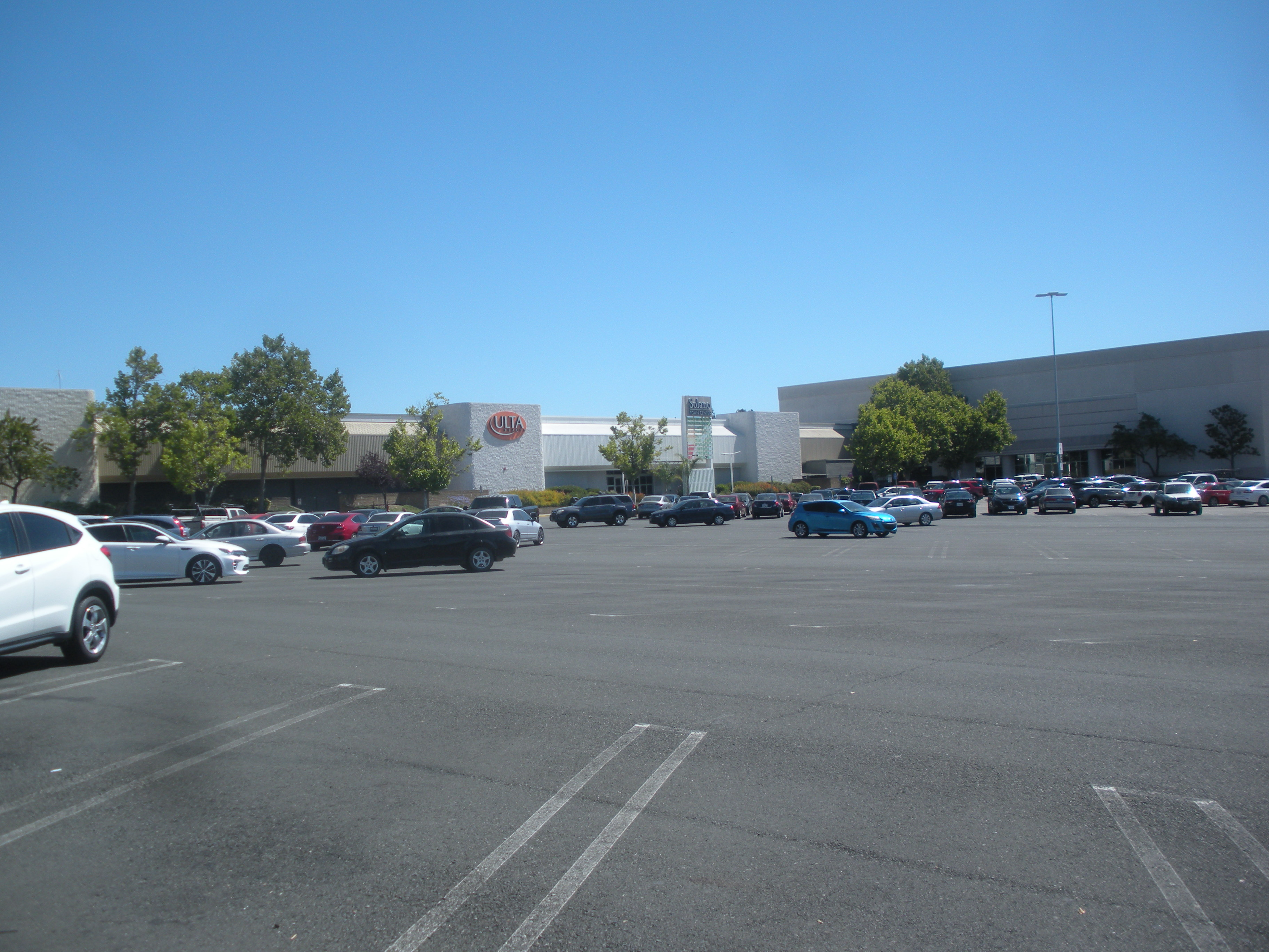 This is Solano Town Center in Fairfield, California. Originally posted to my Flickr